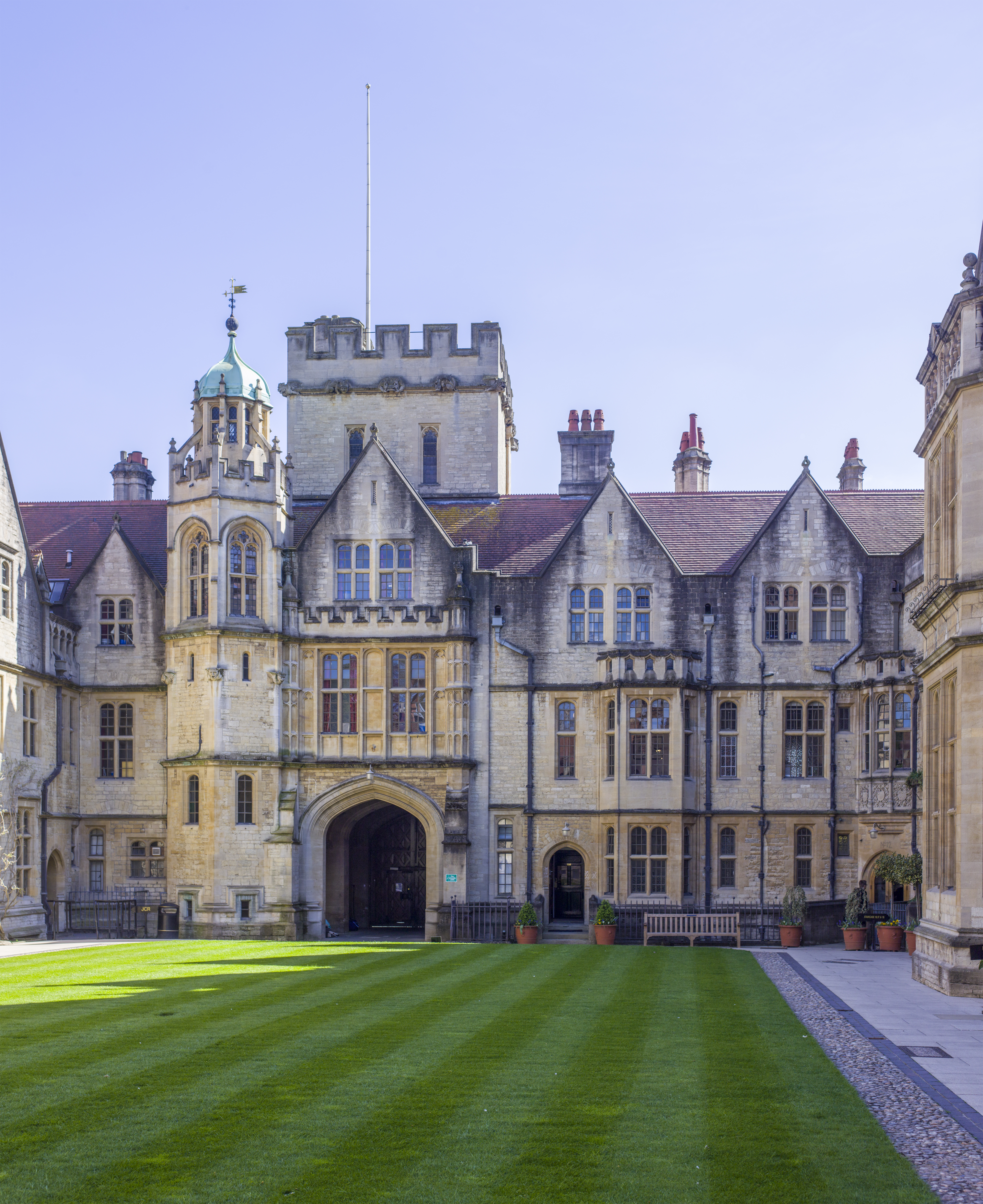 Brasenose College (Oxford University) founded in 1509. New Quadrangle.